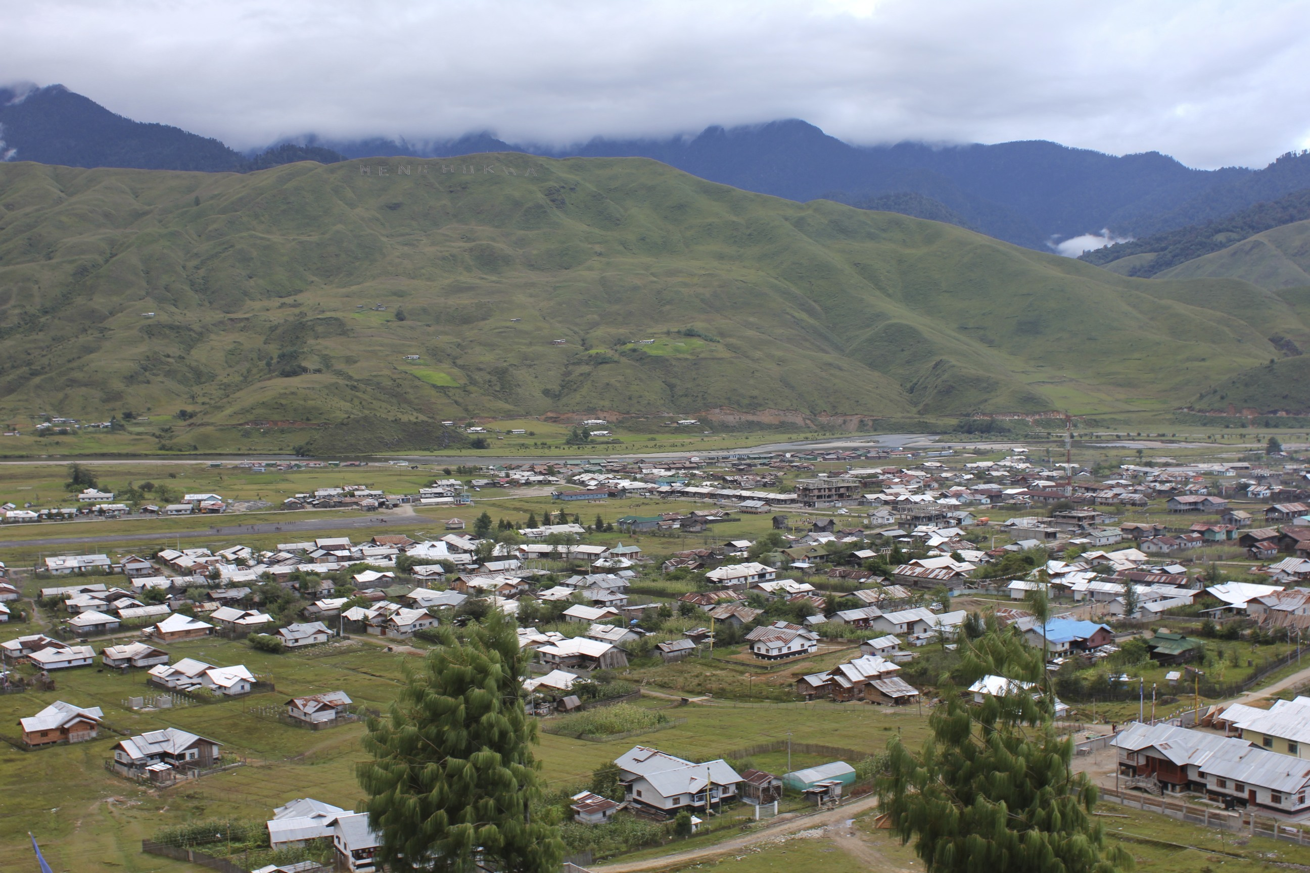 View from the new monastery